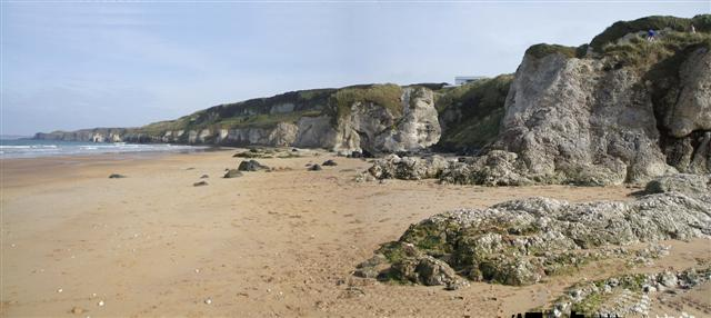 The White Rocks, Portrush Viewed from Curran Strand.